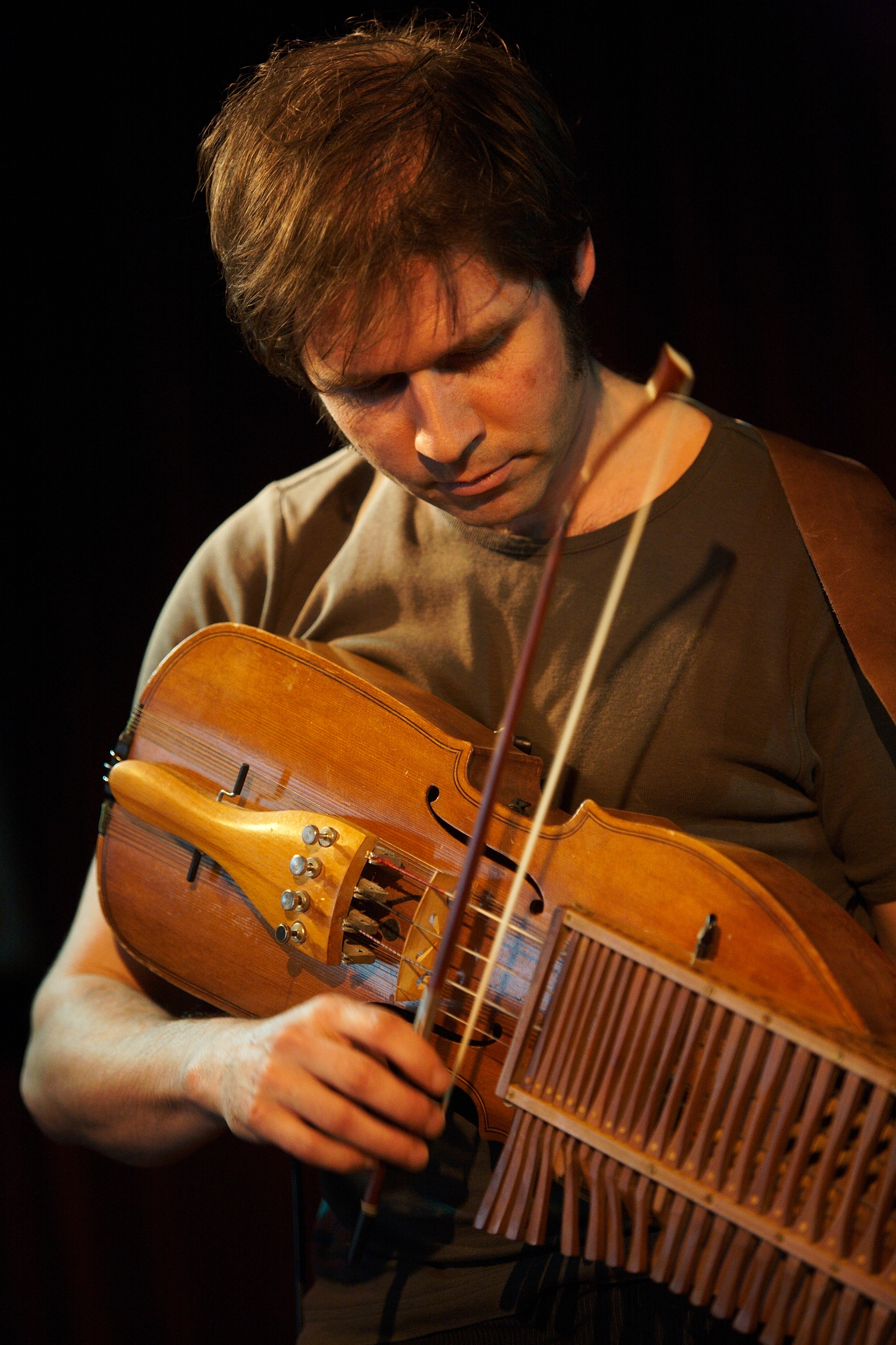 didier francois ronald rietman